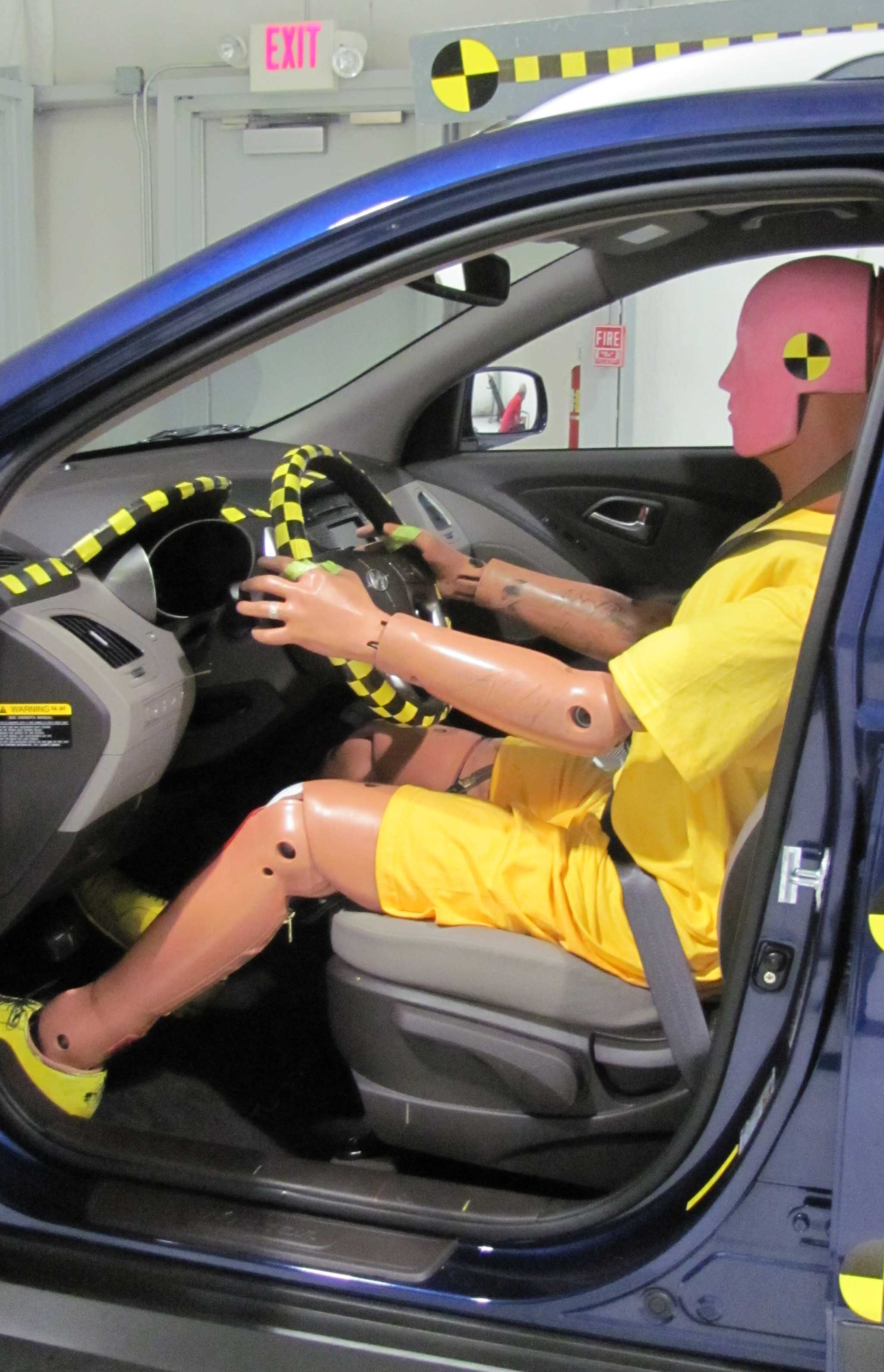 Crash test dummy in a 2010 Hyundai Tucson GLS at the Insurance Institute for Highway Safety Vehicle Research Center.